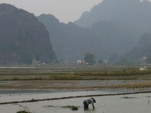 Tam Coc, just outside Ninh Binh